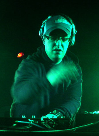 Marcus Intalex playing at Marquee in Sydney in 2006.